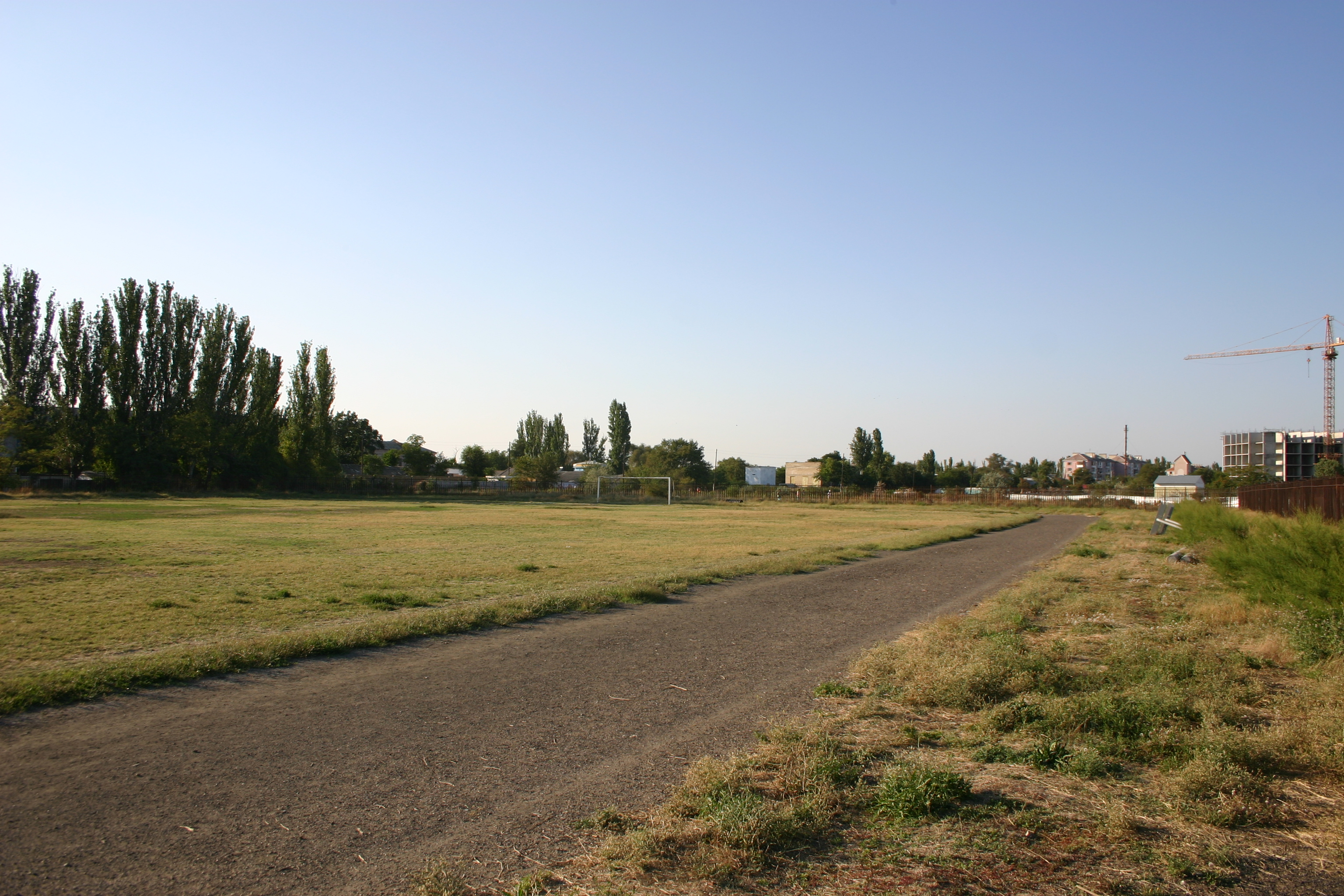 Dynamo Stadium in Feodosia, Crimea, Ukraine